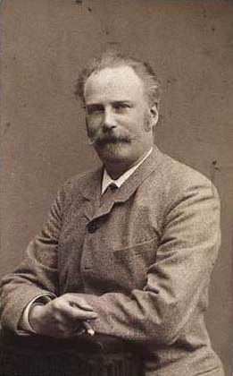 Danish architect and archaeologist Julius Bentley Løffler (1843-1904)